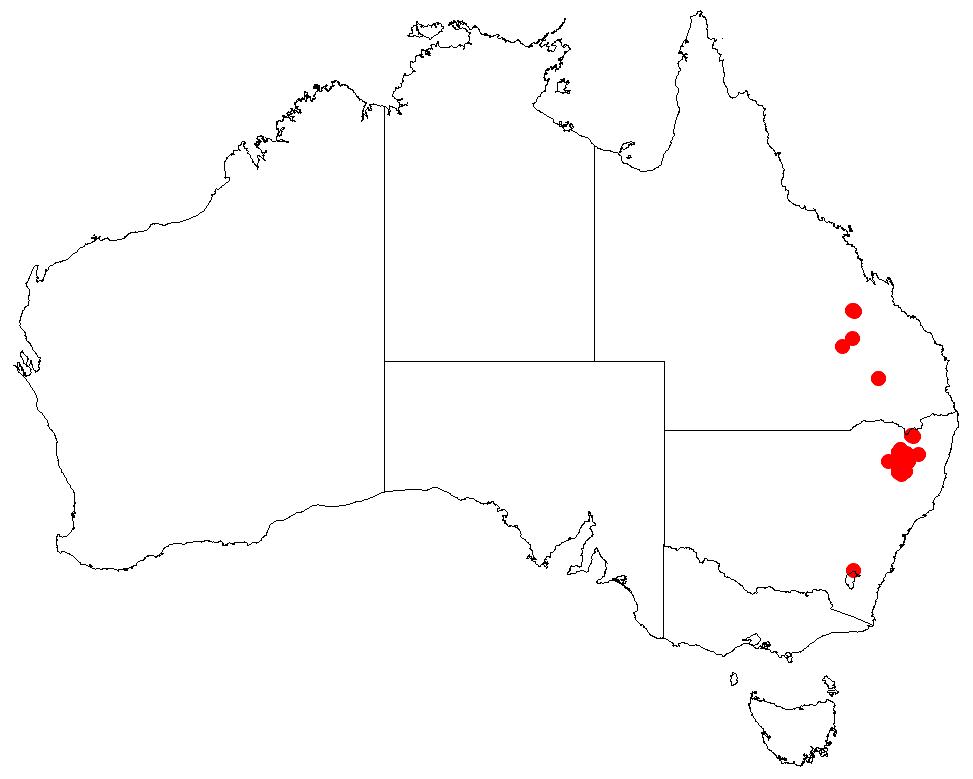 Persoonia fastigiata Occurrence data downloaded from Australasian Virtual Herbarium on 30 October 2018 from